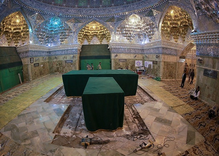 Starting The installation of Askariyya Zarih in Samarra